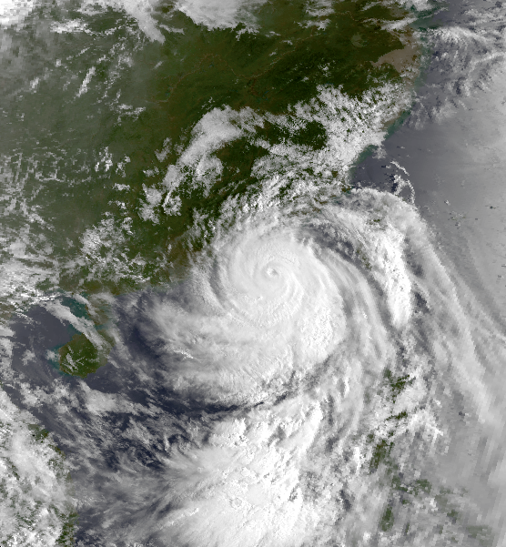 Typhoon Kent on August 30, 1995